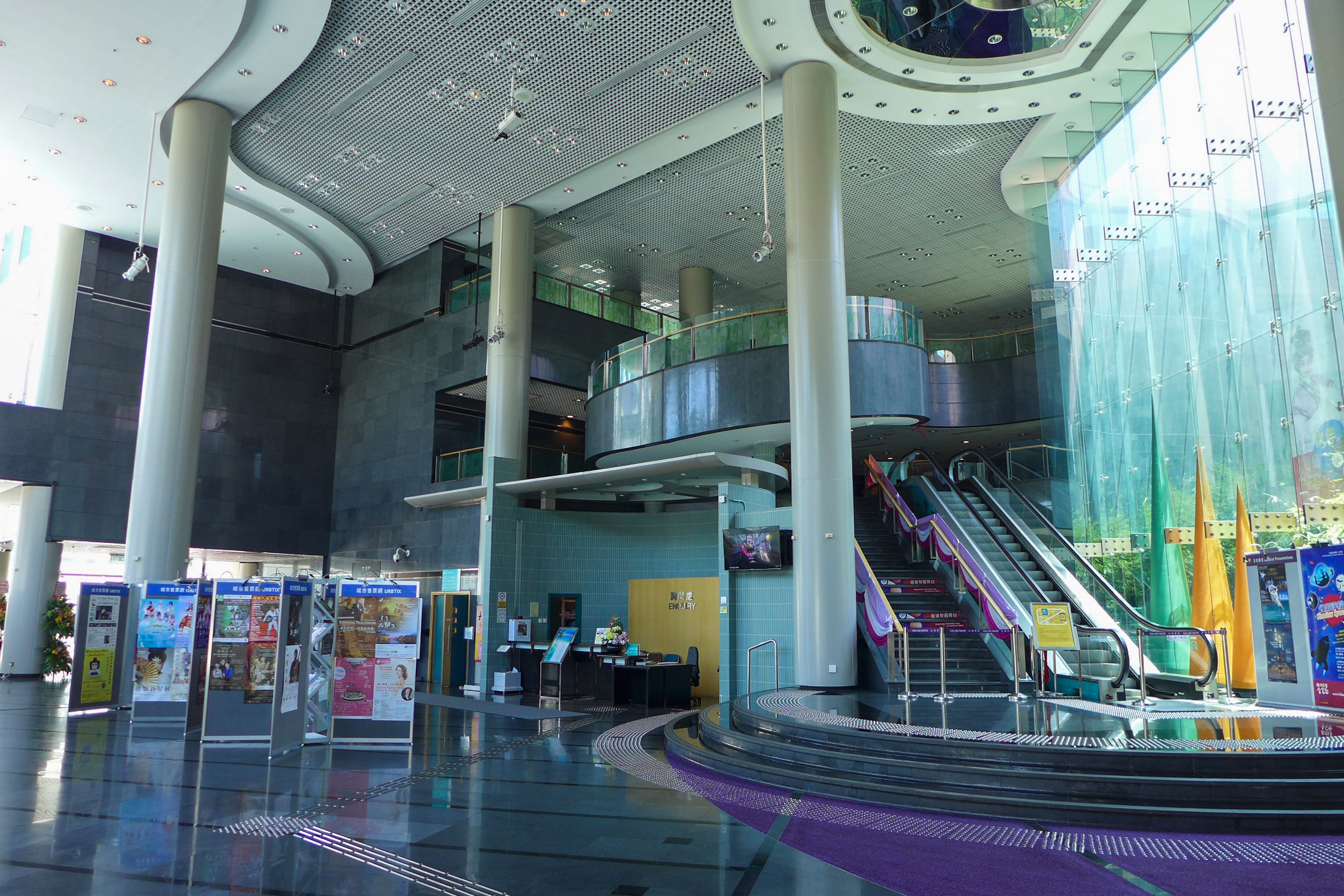 Yuen Long Theatre